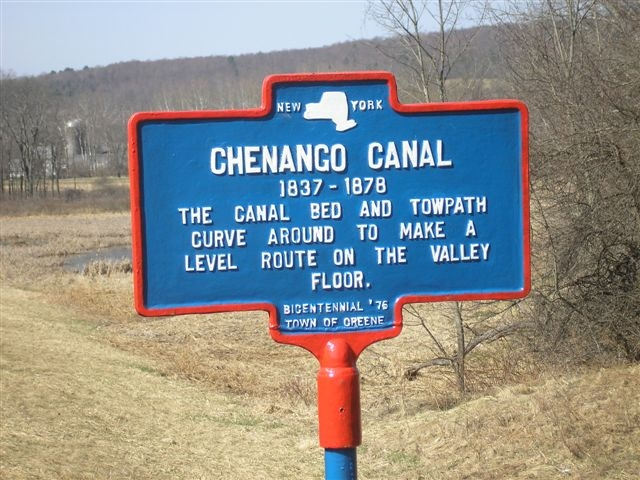 Historic marker of Chenango Canal tow path, curve and bed to make a level route.